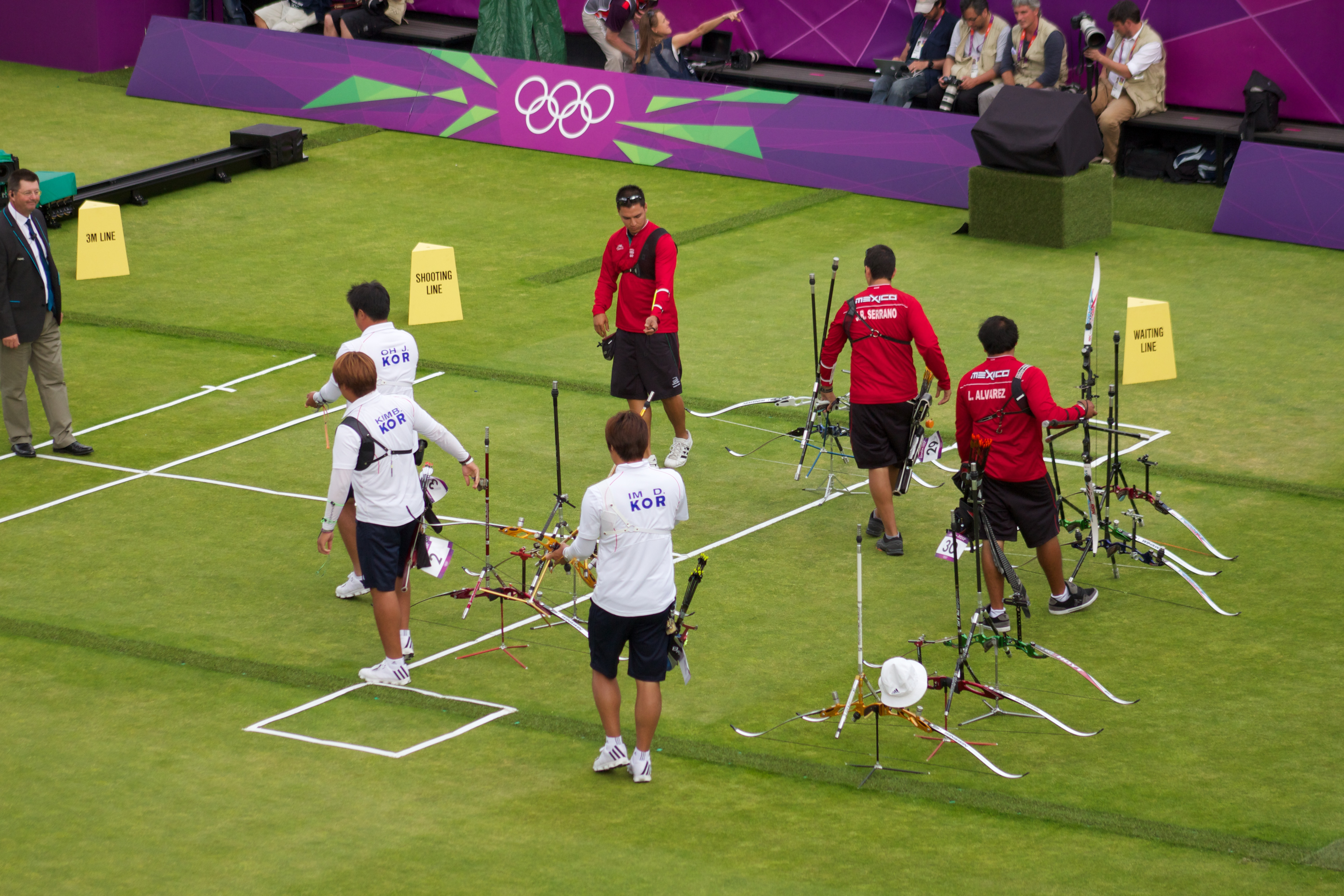 Mexico and South Korea in the archery third place team competition.